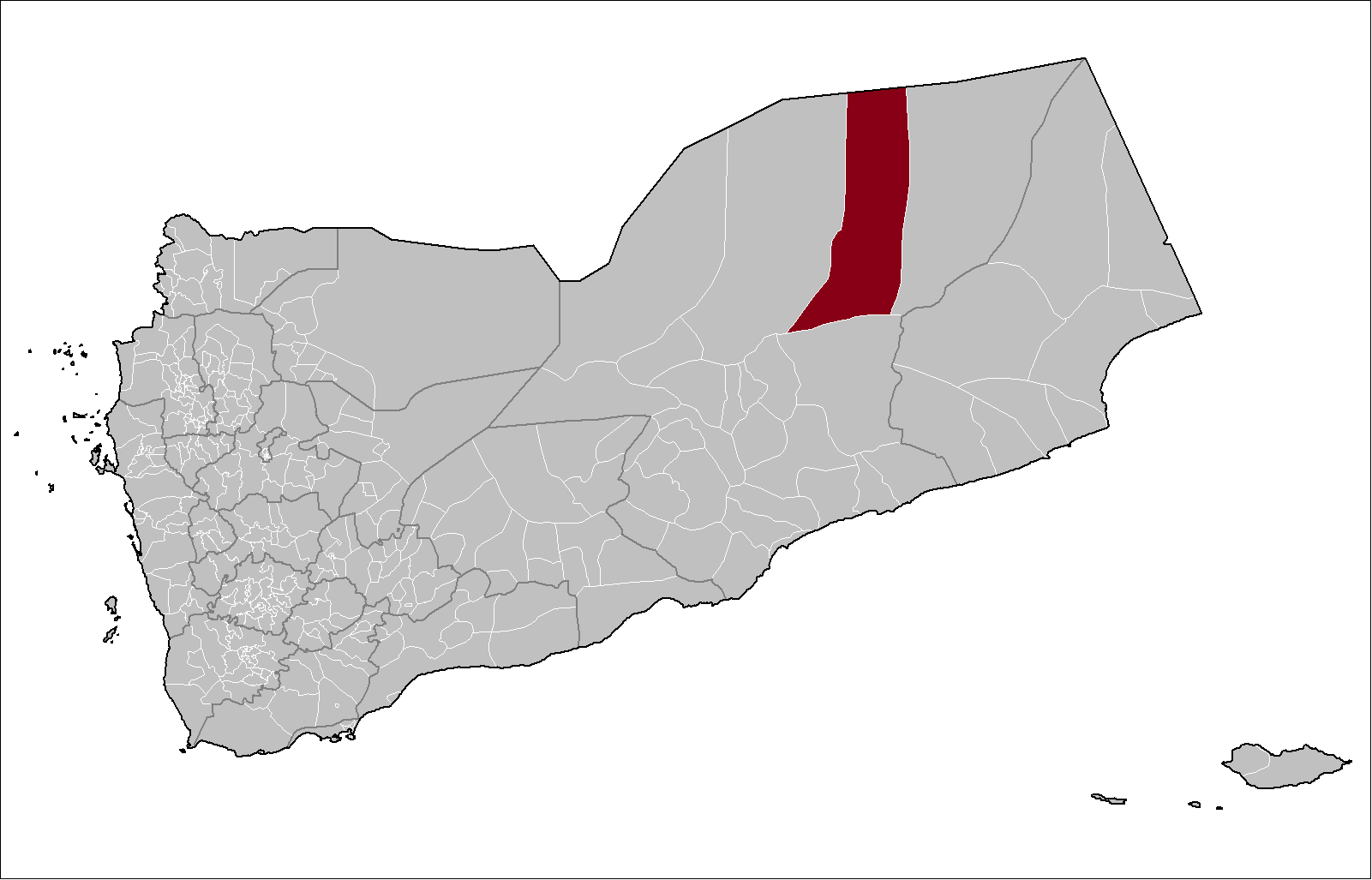 District locator of Thamud District in Hadhramaut Governorate, Yemen.